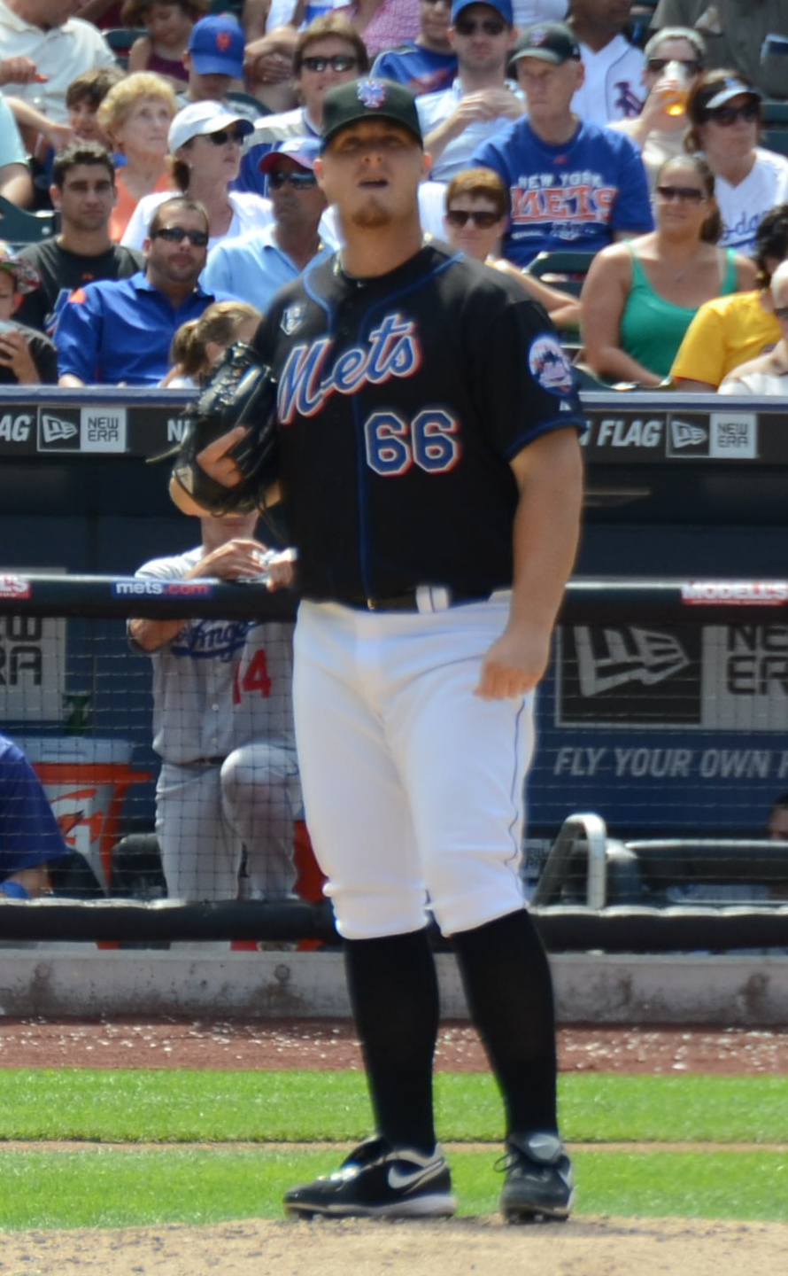 Josh Edgin